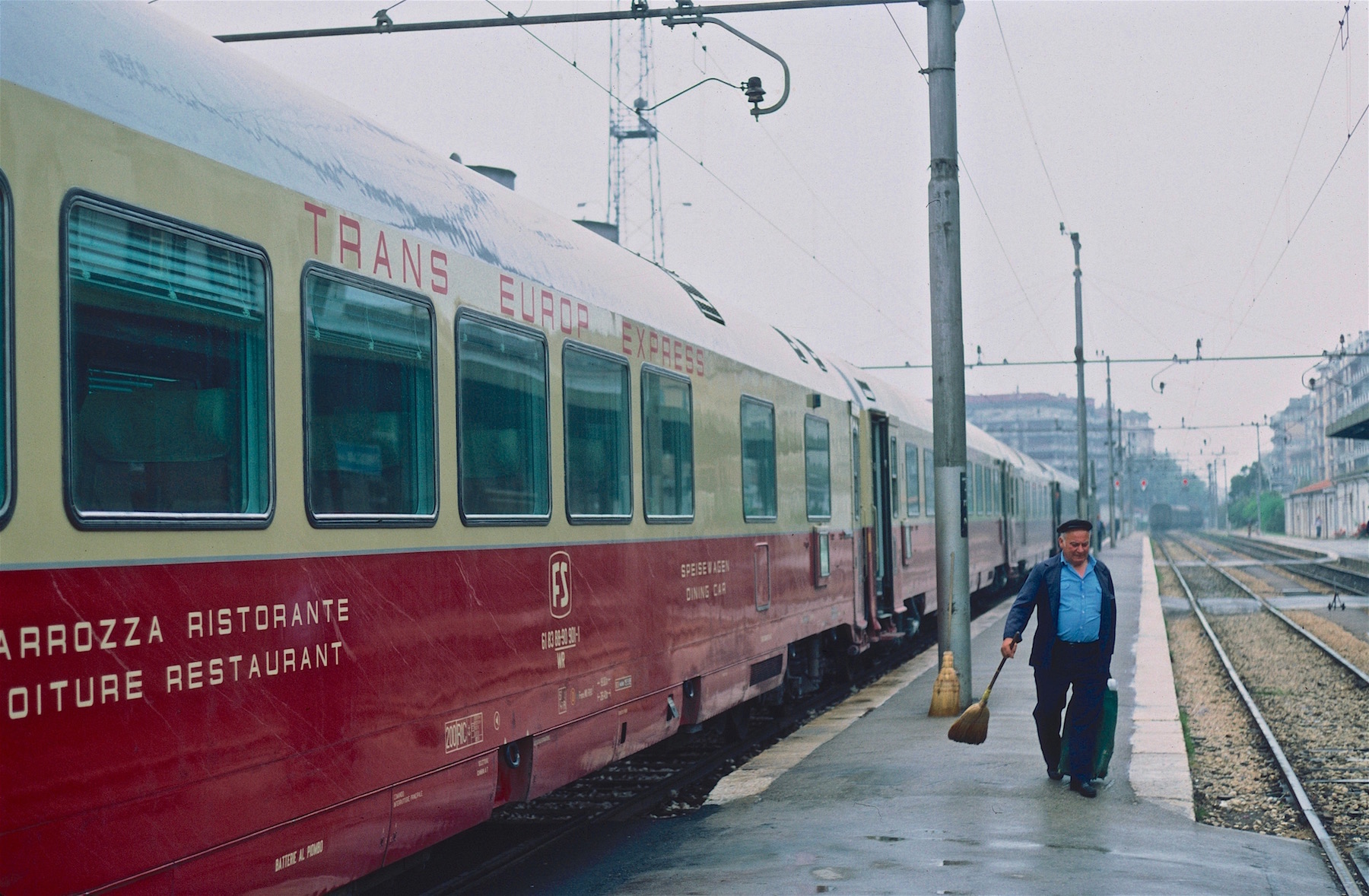 The TEE Adriatico at Pescara station in 1985